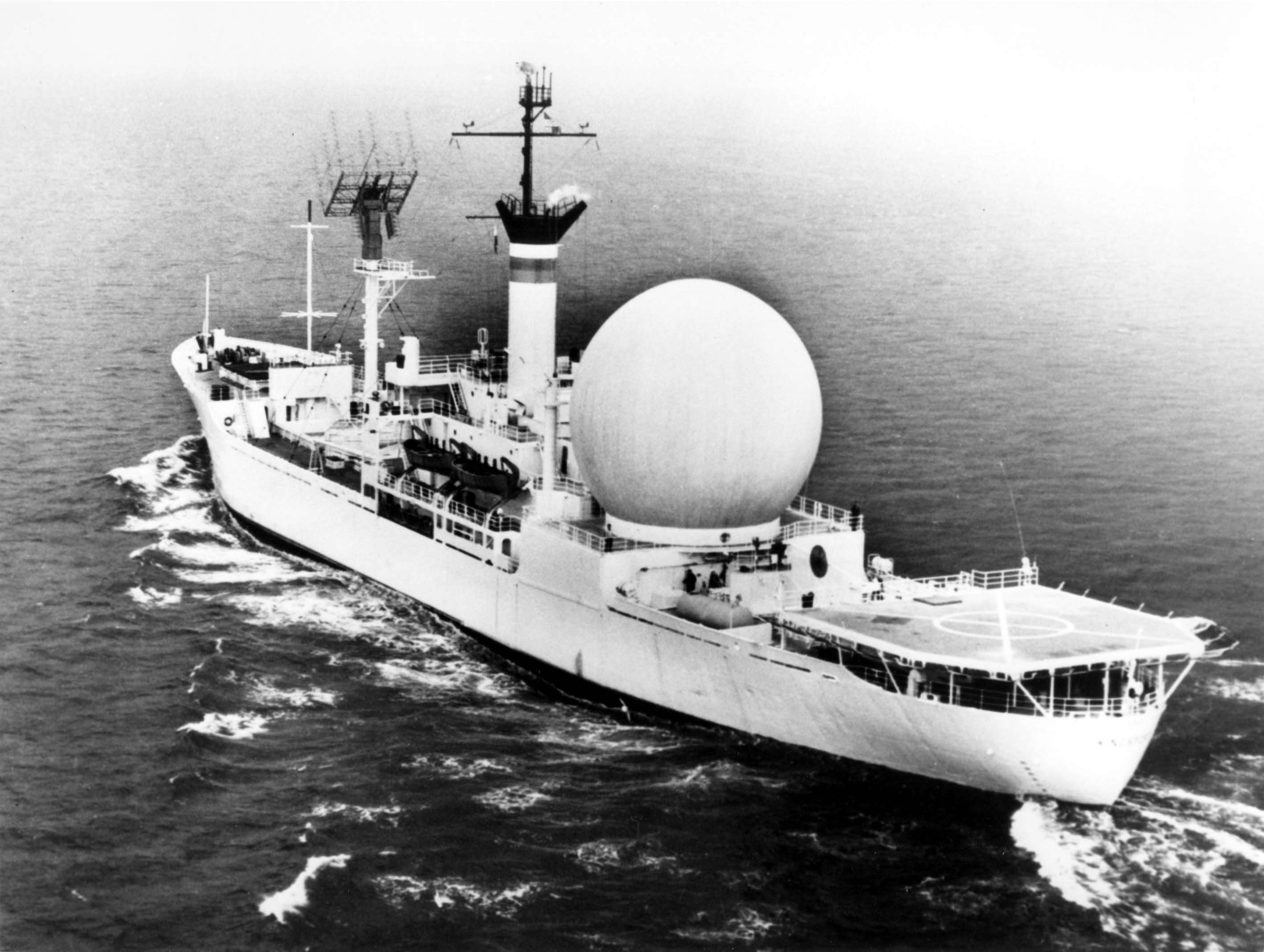 In 1962, the United States Navy built the first satellite communications ship, the U.S.N.S. Kingsport. The picture shows a 53-foot white plastic dome protecting a 30-foot stabilized parabolic antenna. This ship served as a surface-based station for tracking and communications for NASA's Project Syncom. Project Syncom's objective was to demonstrate the technology for synchronous orbit communication satellites. The first Syncom was launched on February 14, 1963.